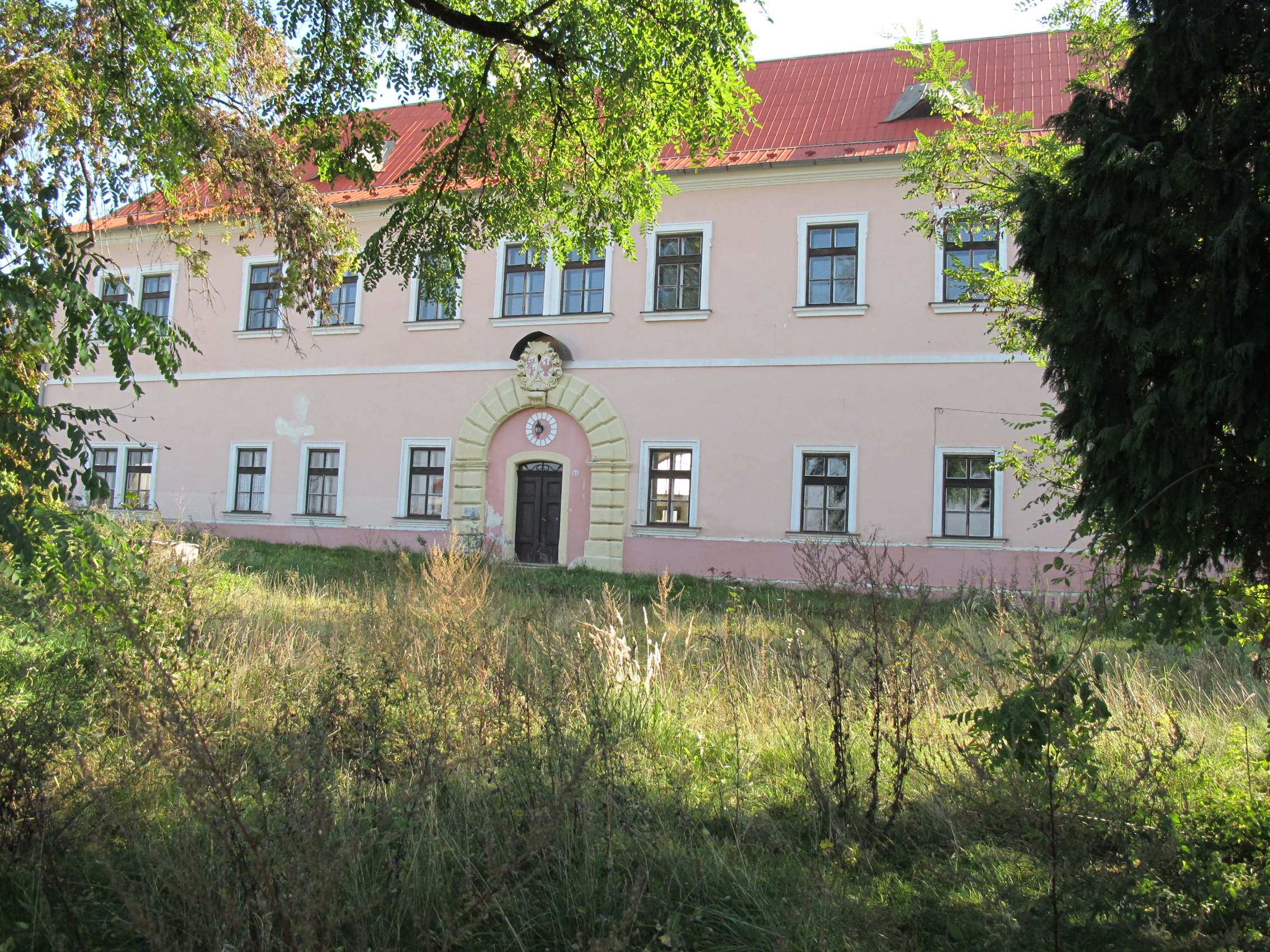 Castle (former China Factory) in Lubenec